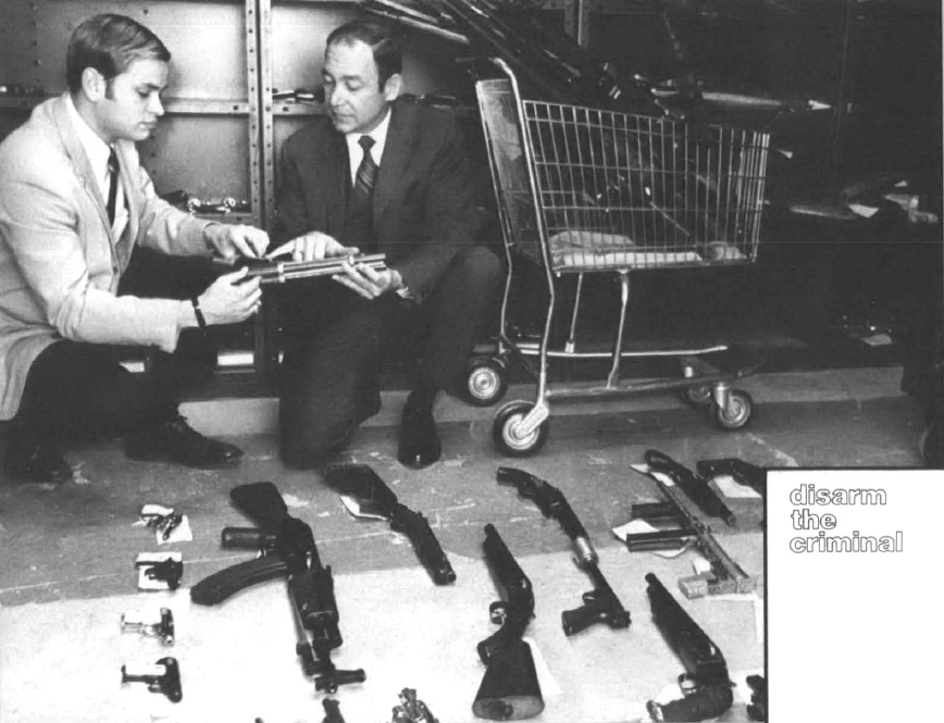 ATF investigators display weapons seized for violations of the Gun Control Act in the evidence room of IRS National Office in Washington, D.C.